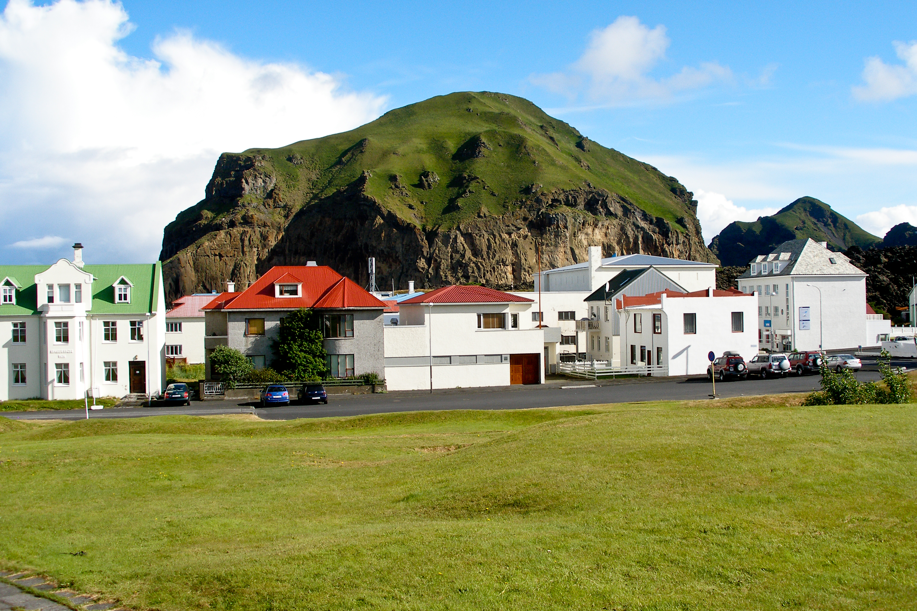 House and grassy hilltop on Heimaey, Iceland.